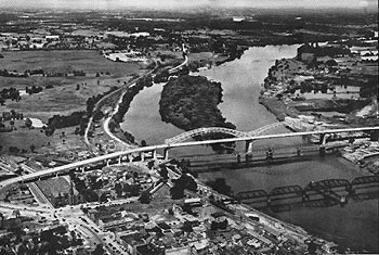 Text with image: "Fully 20 years ago, residents of Middletown and Portland were dreaming of the day when the two towns would be connected by a bridge without a draw span, and were conjecturing how long the old bridge could carry the rapidly increasing burden of motor cars, motor trucks, and motor buses. Drivers from all over the state and from other states were grumbling at the traffic delays in crossing the bridge on Sundays and holidays."